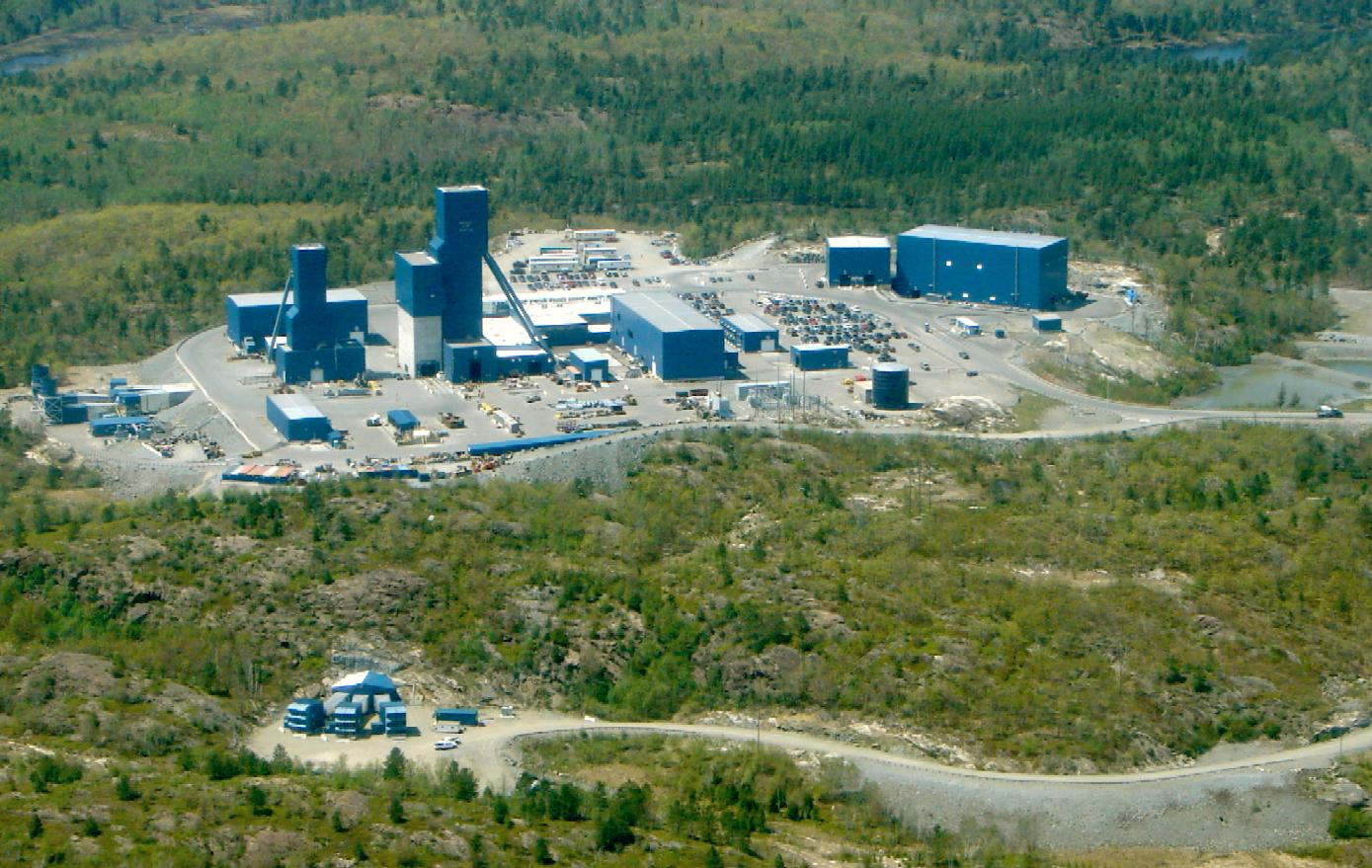 Nickel Rim South Mine, near Sudbury, Ontario, Canada